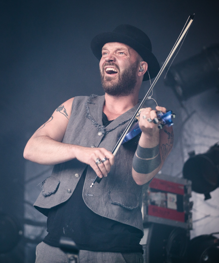 Sveinung Sundli in a concert with Gåte at the DnB-stage at Grefsenkollen. The concert was part of Over Oslo and took place on 20. June 2018 in Oslo. Lineup:Gunnhild Sundli (vocal)Sveinung Sundli (fiddle)Jon Even Schärer (drums)Magnus Børmark (guitar)Mats Paulsen (bass guitar)